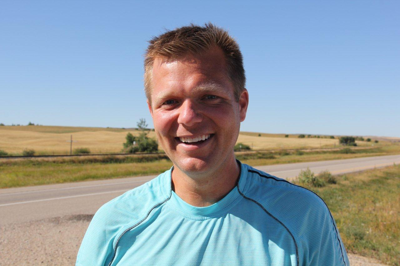 Picture of Riley in Saskatchewan.